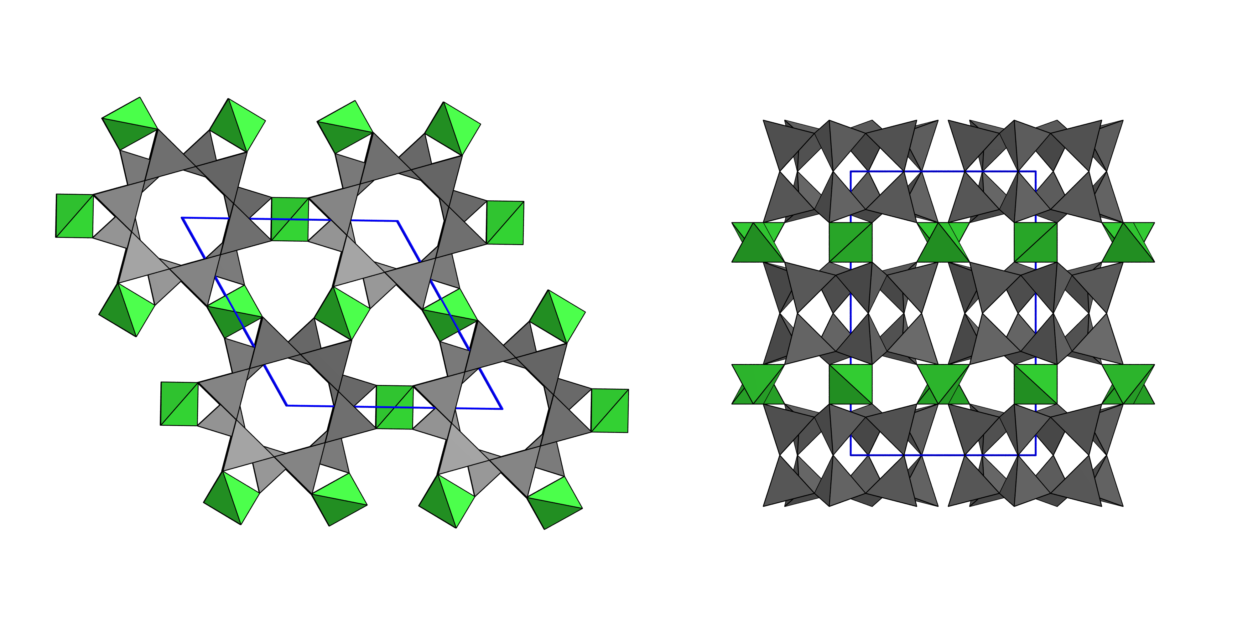 Milarite structure: T2 site - tetrahedra framework viewed along c-axis (left) and along a-axis (right) gray: T1 6er double ring green: T2 tetrahedra Data from: Hawthorne, F. C., Kimata M., Cerny P., Ball N. A., Rossman G. R., Grice J. D. (1991): The crystal chemistry of the milarite-group minerals (sample 25 from Guanajuato), American Mineralogist 76, pp. 1836-1856 Calculation of image data: Larry W. Finger, Martin Kroeker, and Brian H. Toby, DRAWxtl, an open-source computer program to produce crystal-structure drawings, J. Applied Crystallography V40, pp. 188-192, 2007 Rendering: POVRAY